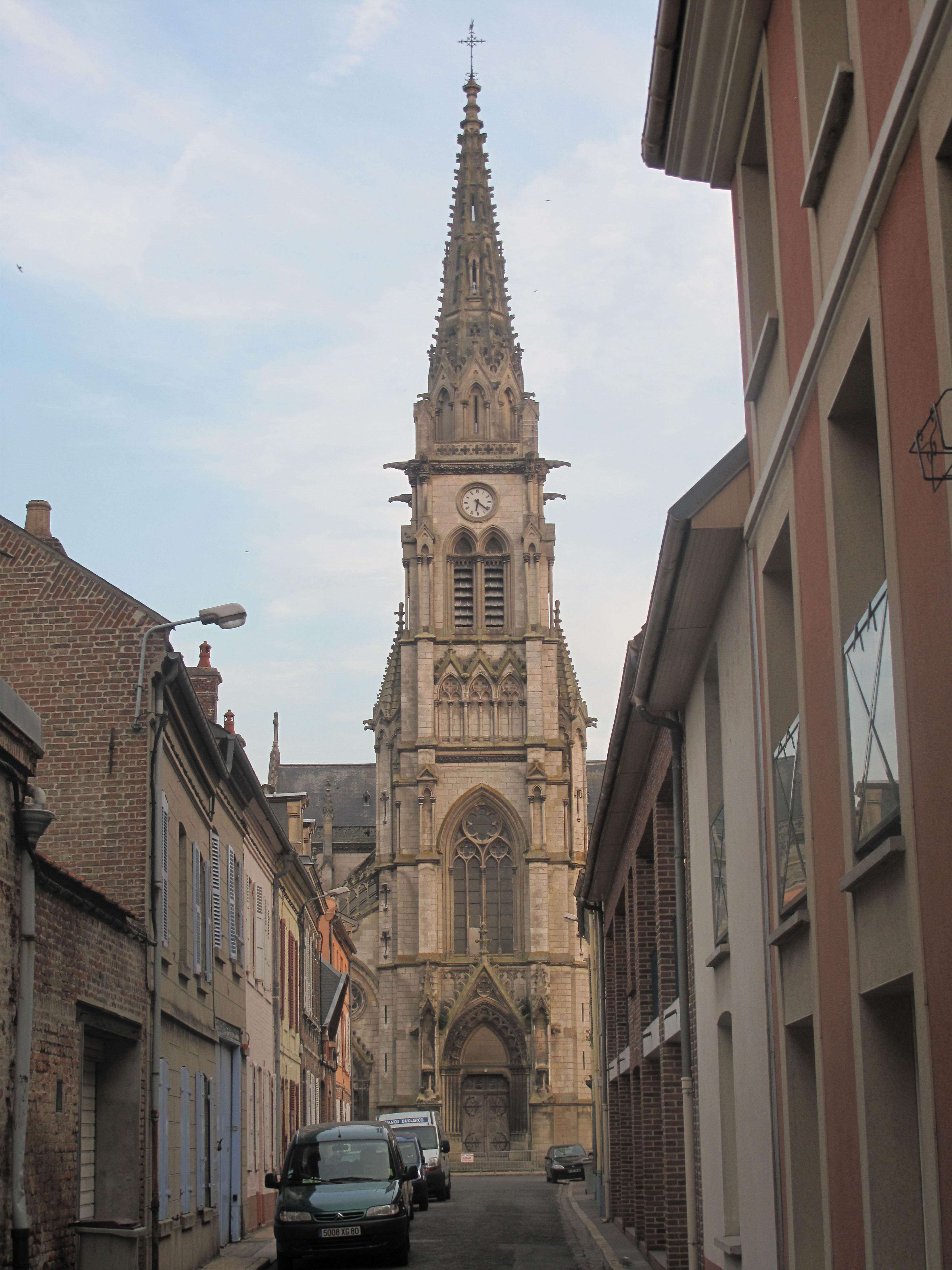 Grande rue Saint-Jacques (=large Saint-James street) in Abbeville, France, with the church in the background